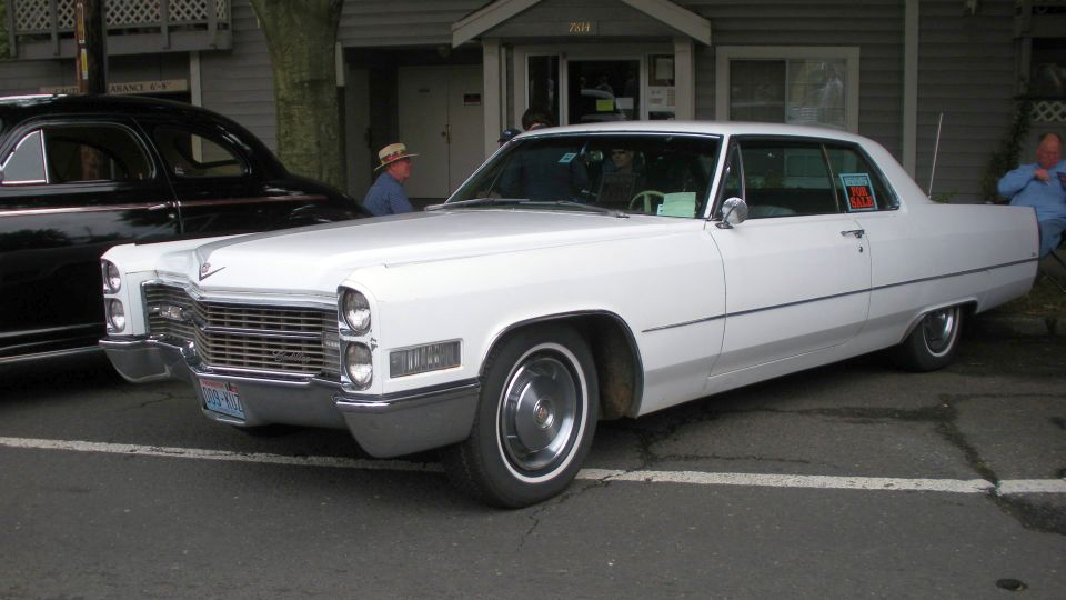 Photo taken at the Greenwood Car Show in Seattle Washington.